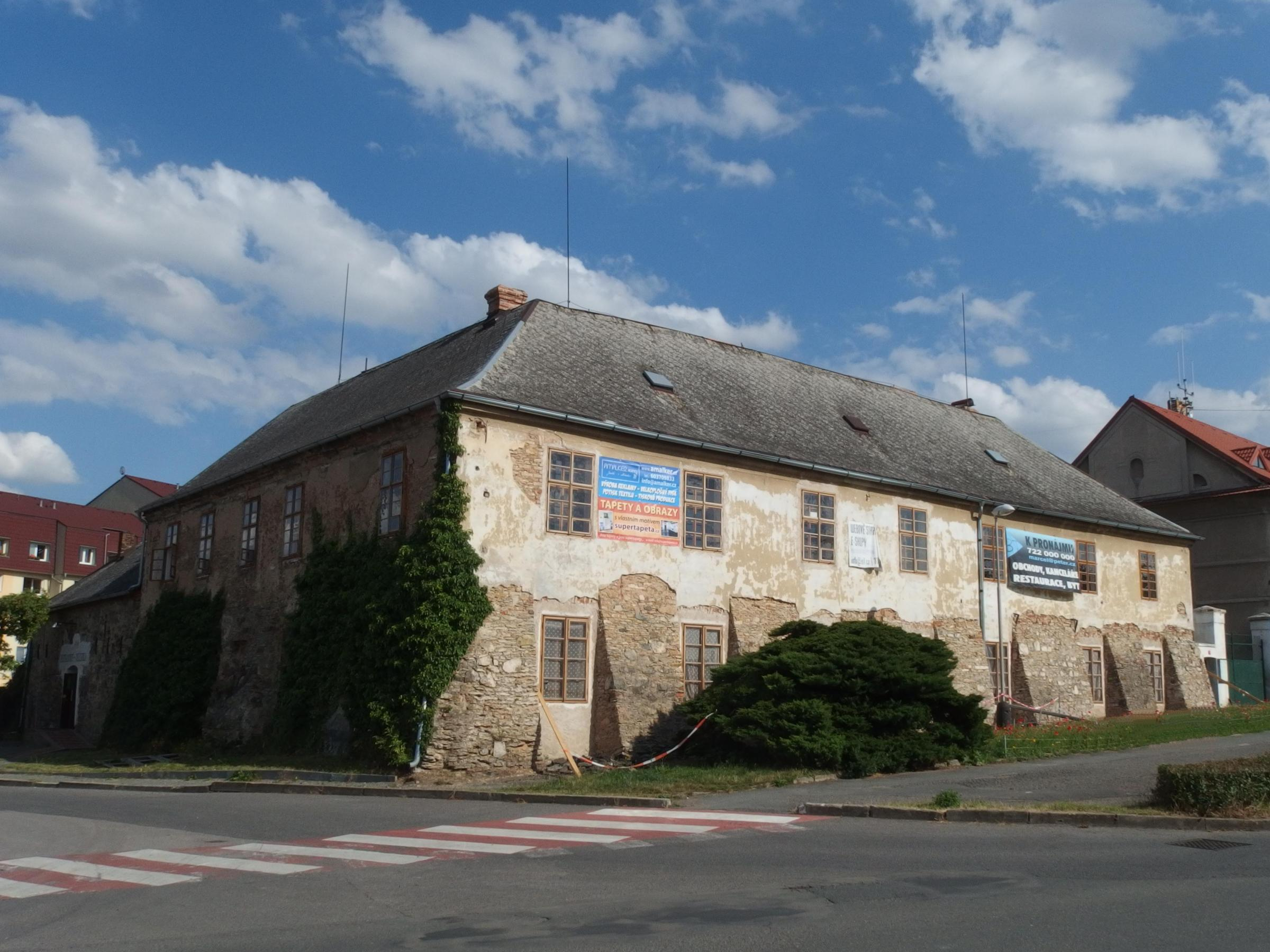 Castle at Odolena Voda